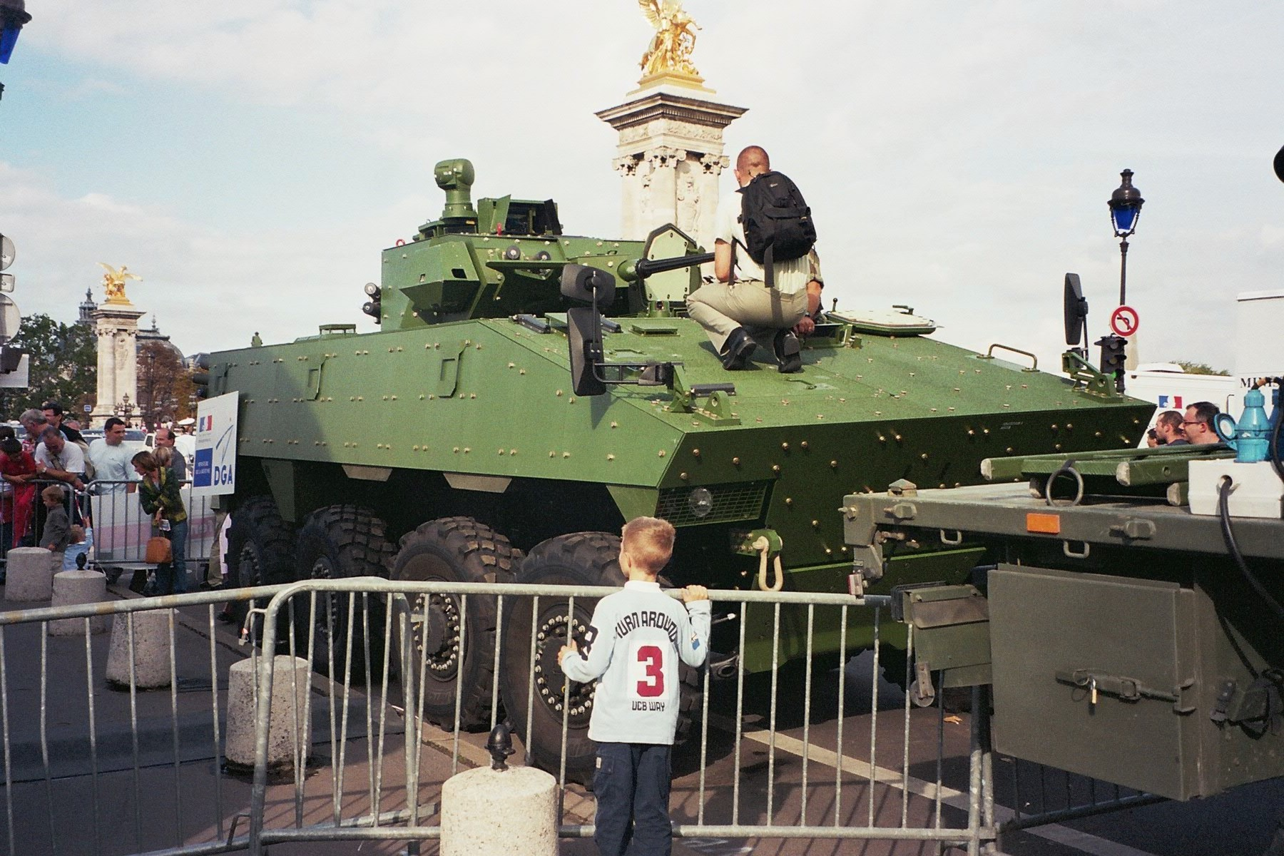 Nation/Defense days, Esplanade des Invalides, Paris, France, September 24-25, 2005